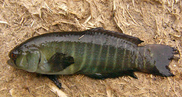 Grundfächerfisch (Austrolebias cheradophilus)